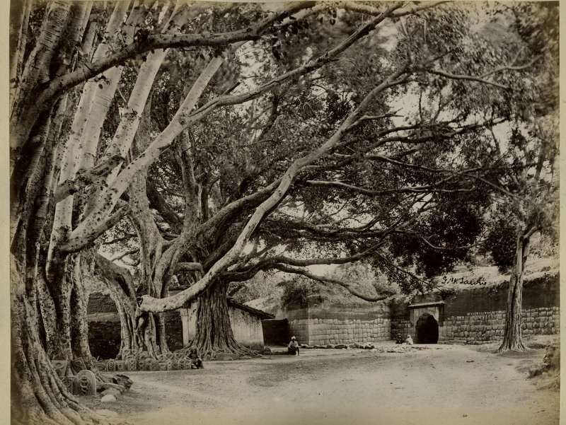 The spot where Tipu Sultan died in Srirangapatna, Karnataka